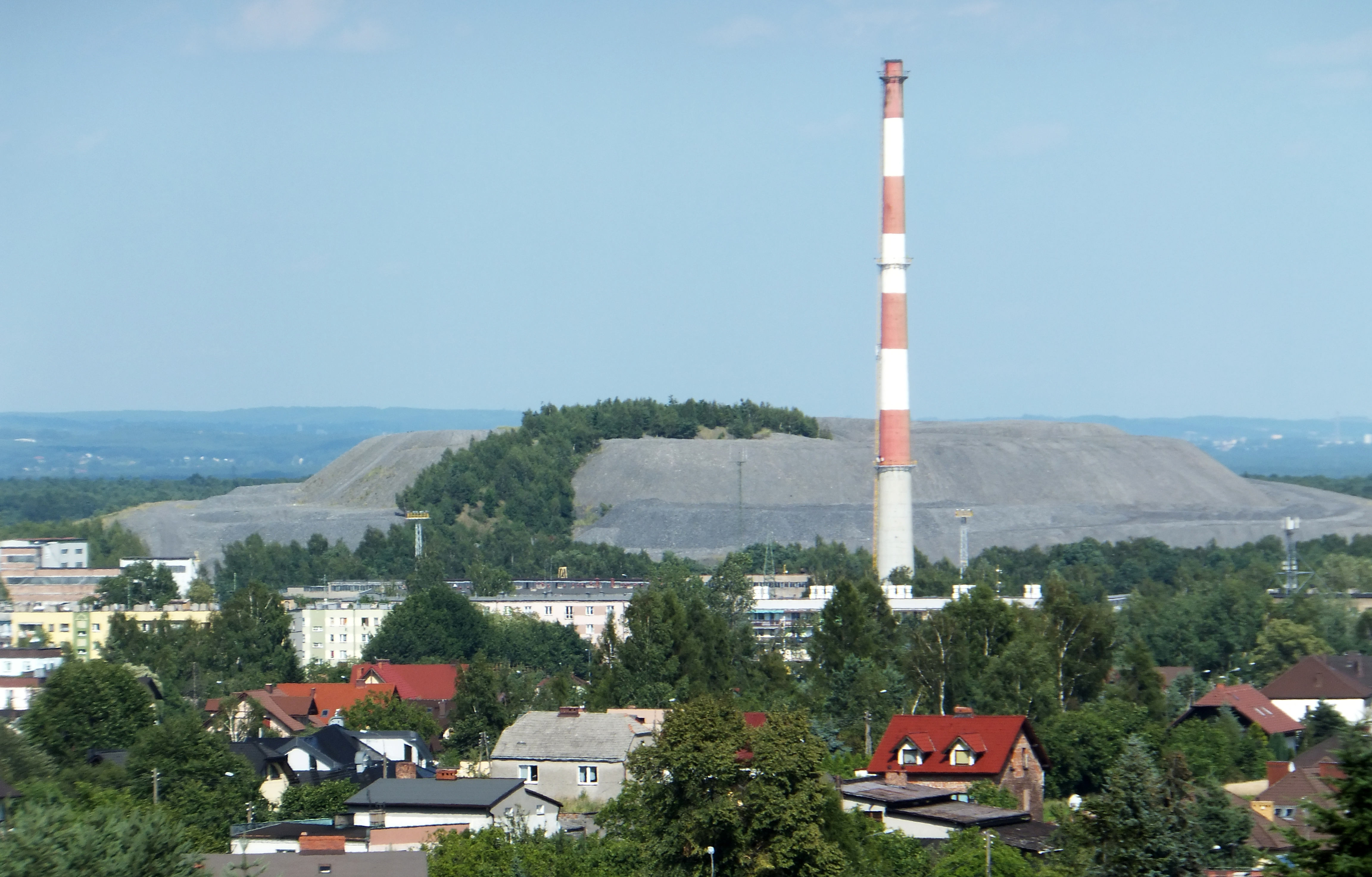 Slag heap in Lędziny, view from hill Klimont (Poland).